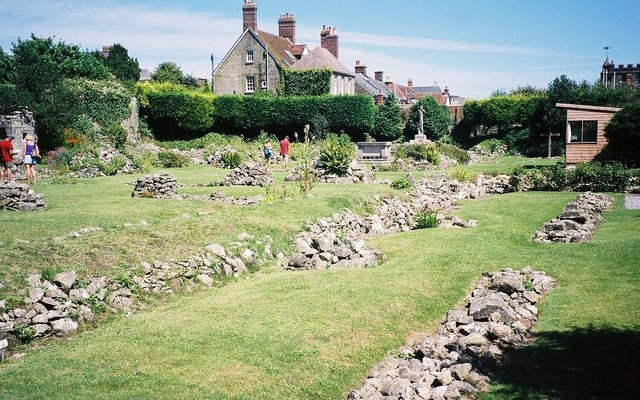 The ruins of Shaftesbury Abbey situated within a walled garden